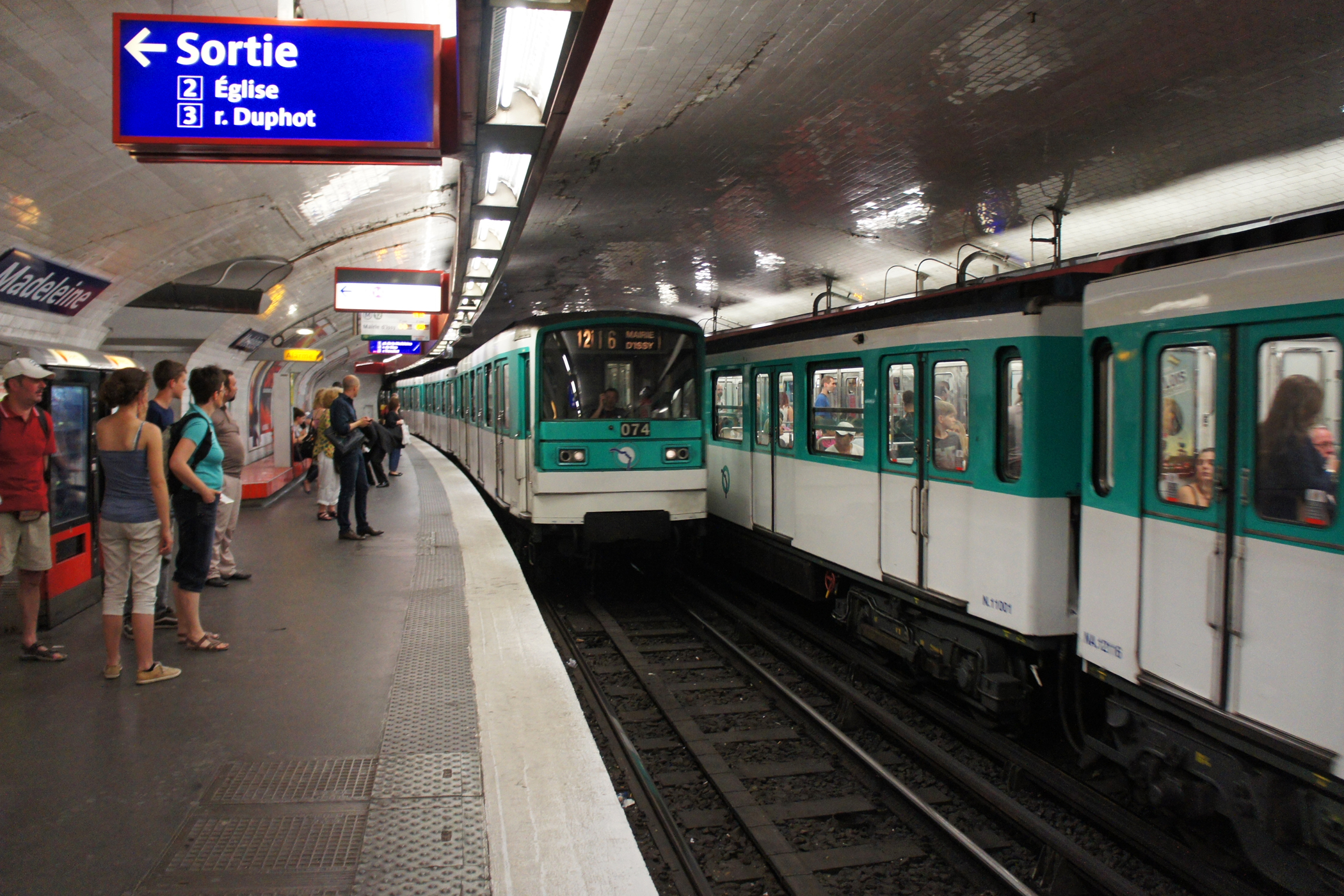 Paris Metro Ligne 12, Madeleine Station